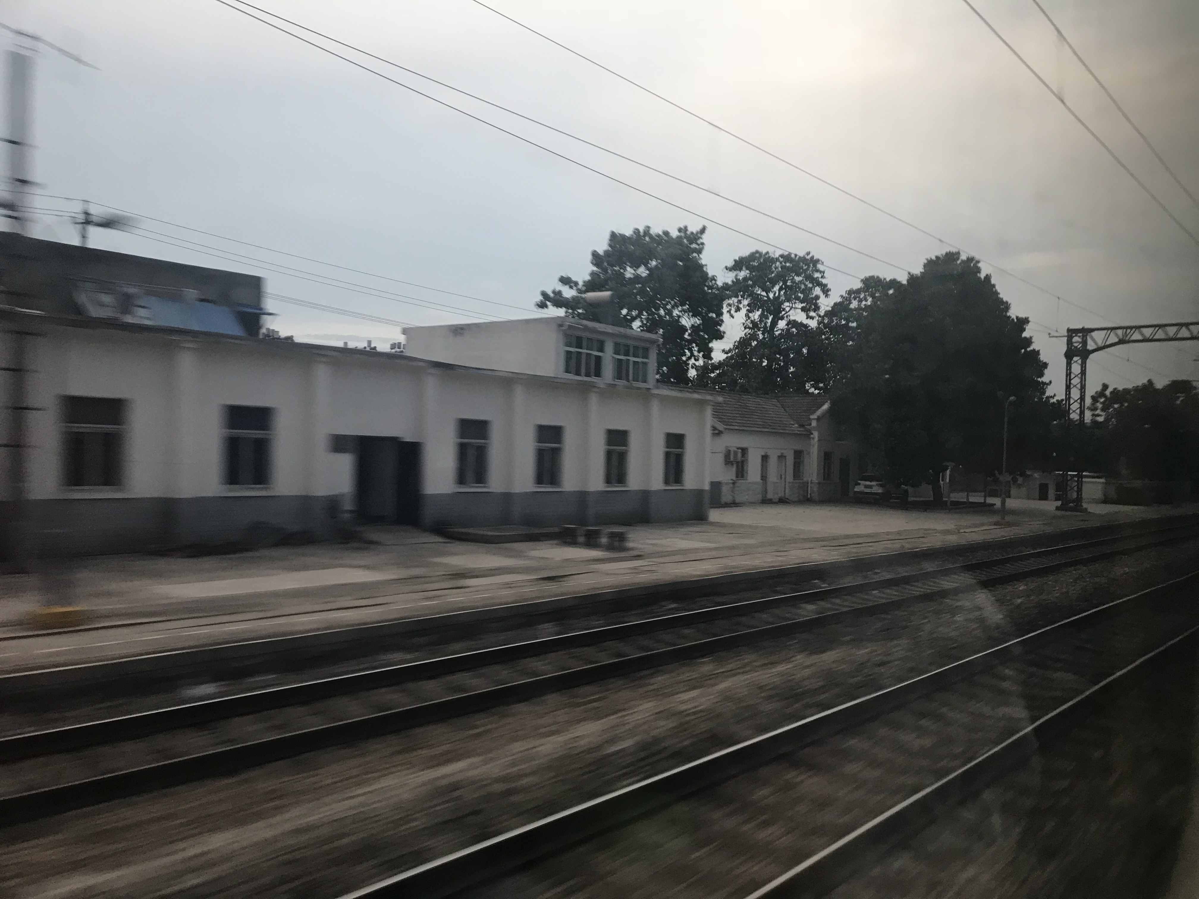 201806 Liancheng Station